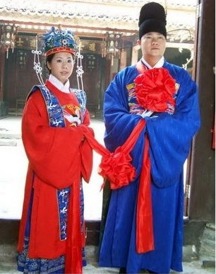 Traditional Chinese wedding attire